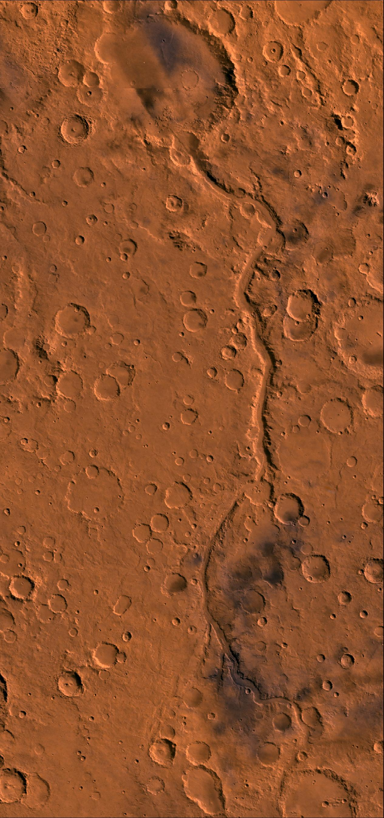 Ma'adim Vallis region of Planet Mars